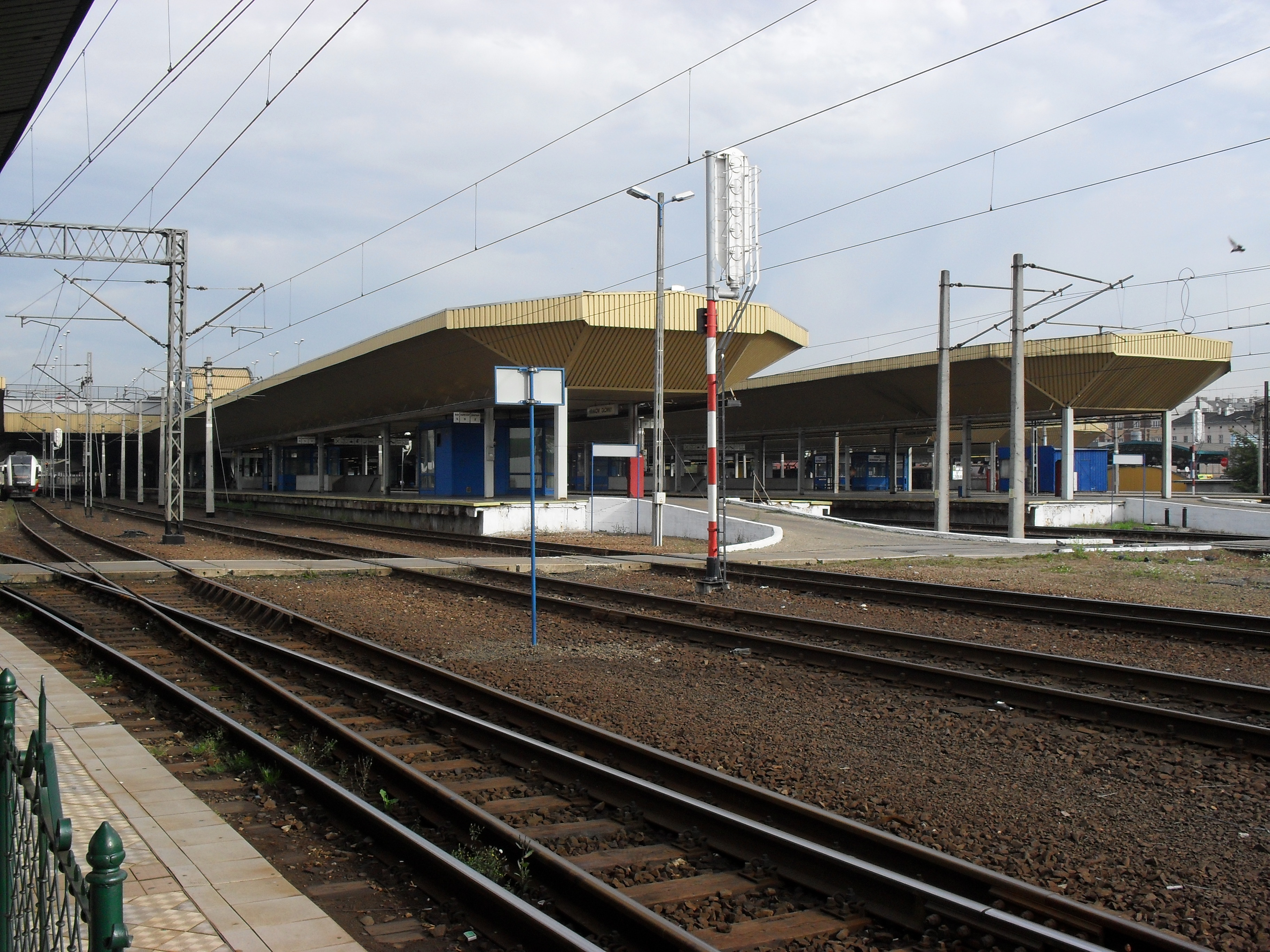 The new station at Krakow Glowny, Krakow, Poland.